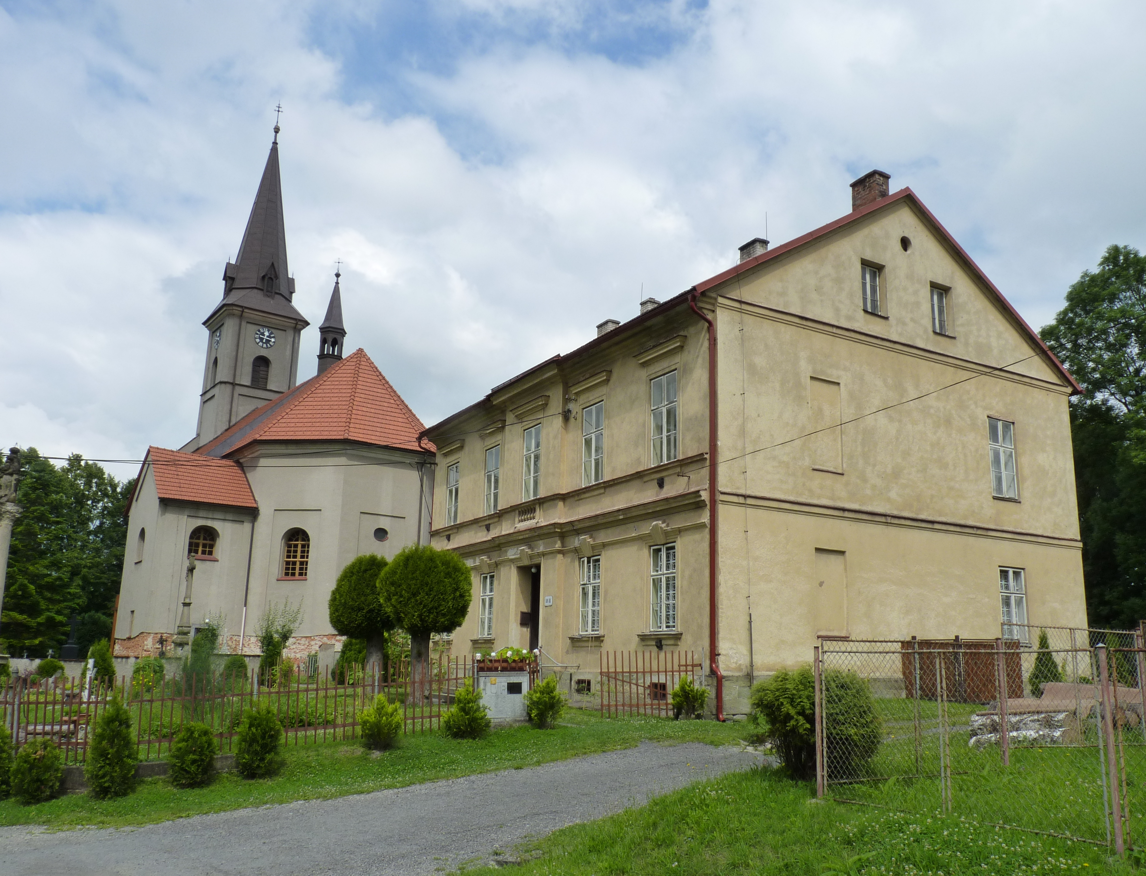 Horní Domaslavice. Frýdek-Místek District, Moravian-Silesian Region, Czech Republic